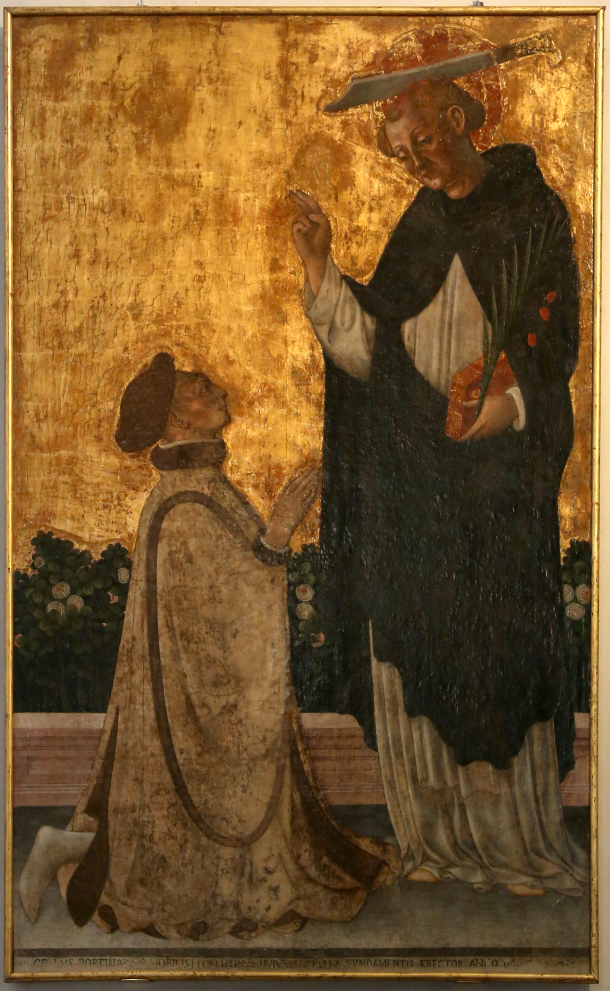 Sant'Eustorgio (Milan) - Cappella Portinari